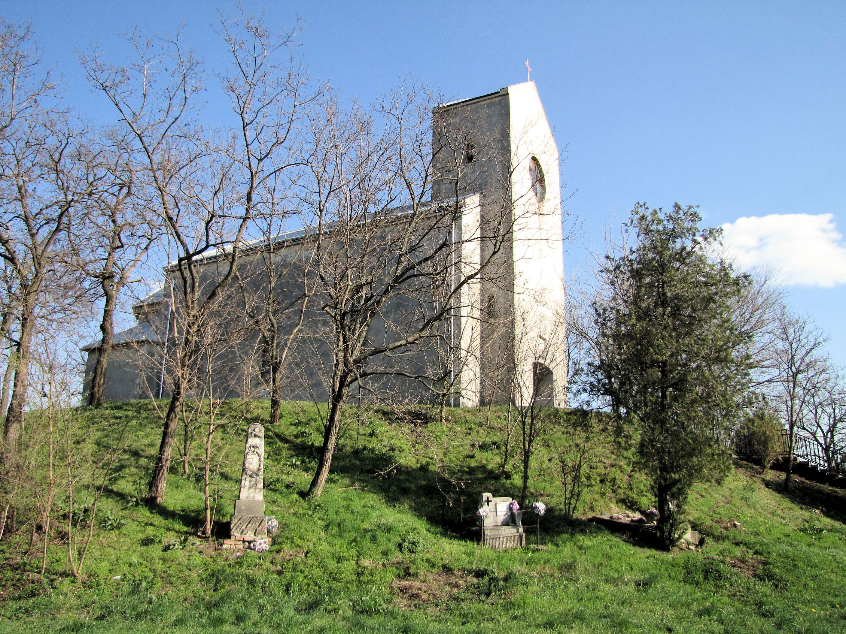 Roman catholic church, Sárszentágota.